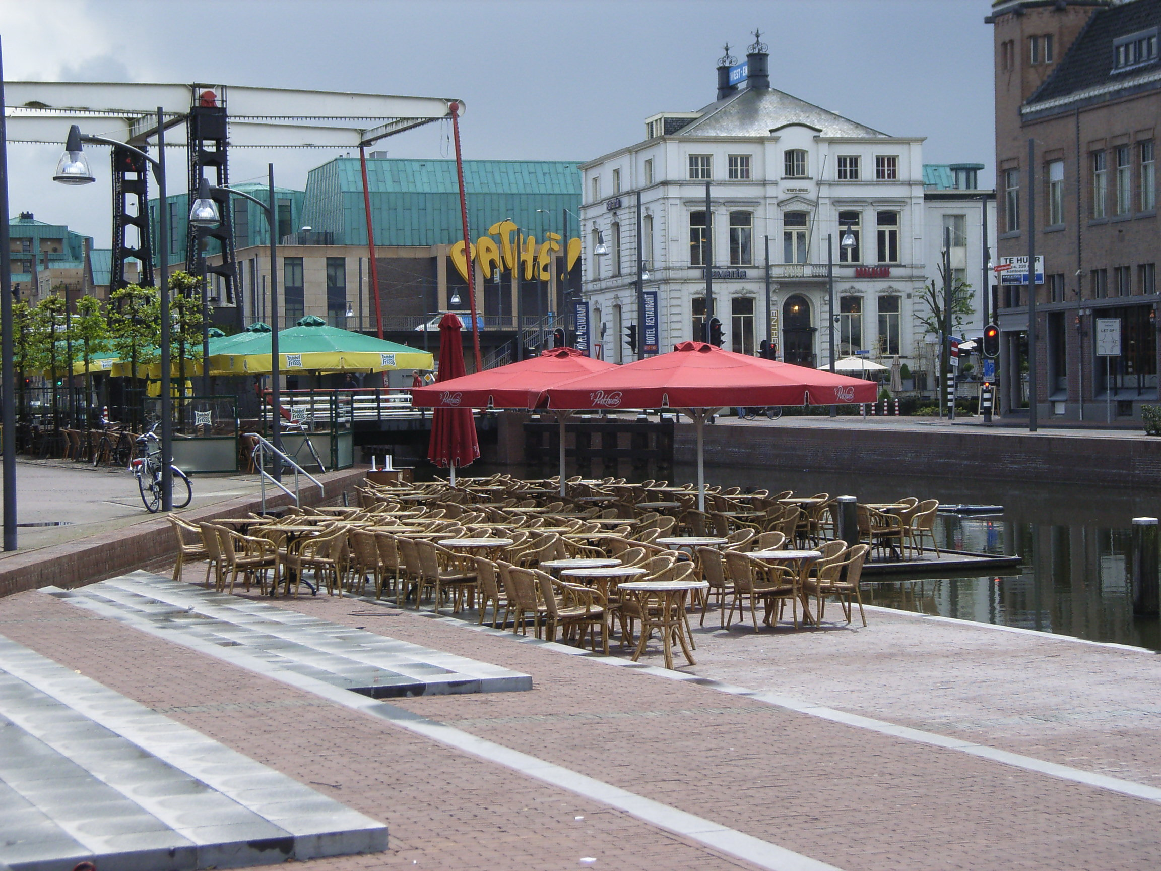 Old part of the Zuidwillemsvaart canal in the centre of Helmond.